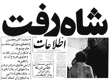 Headline of Ettela'at when Mohammad Reza Shah and his family left Iran on January 16, 1979: "Shah Left"